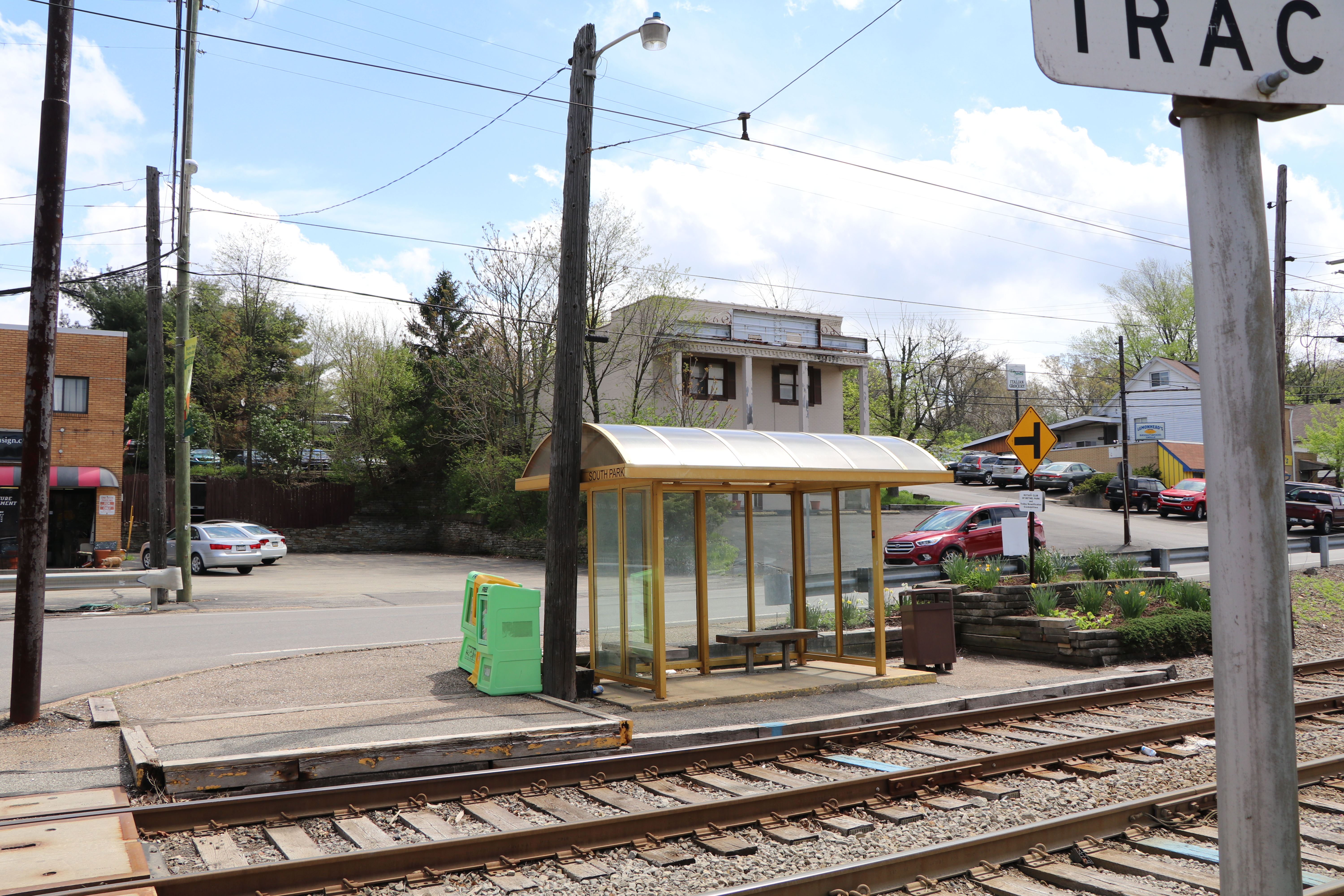 South Park station on the Blue Line, Bethel Park, PA. View looking east at the inbound platform.